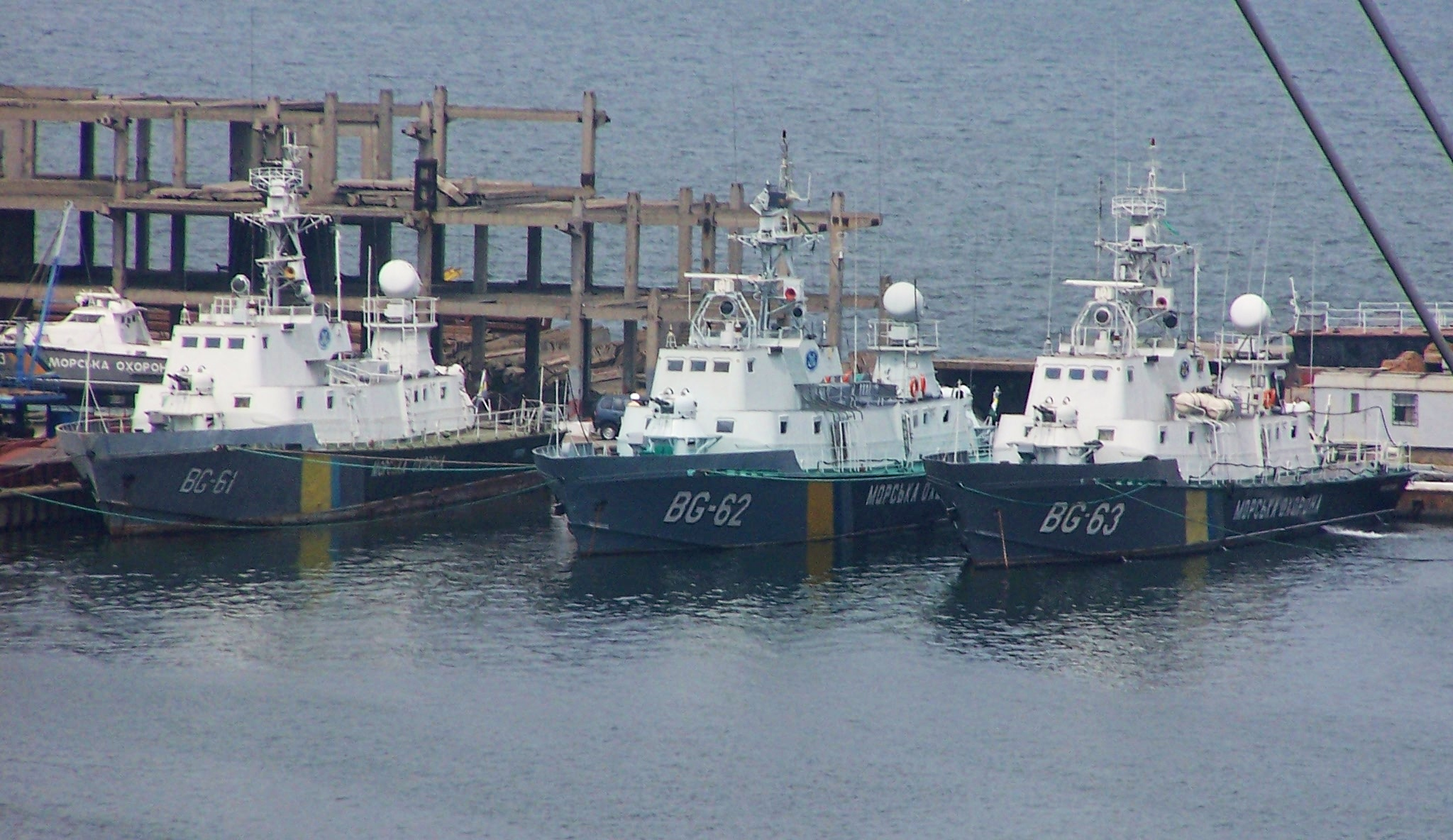 Stenka class boats BG-61 “Odessa”, BG-62 “Podillia” and BG-63 “Pavlo Derzhavin” of the Ukrainian Sea Guard in Odessa, Ukraine. The words on the side read МОРСЬКА ОХОРОНА (Ukrainian for “coast guard”). The yellow and blue colors are from the Ukrainian flag.